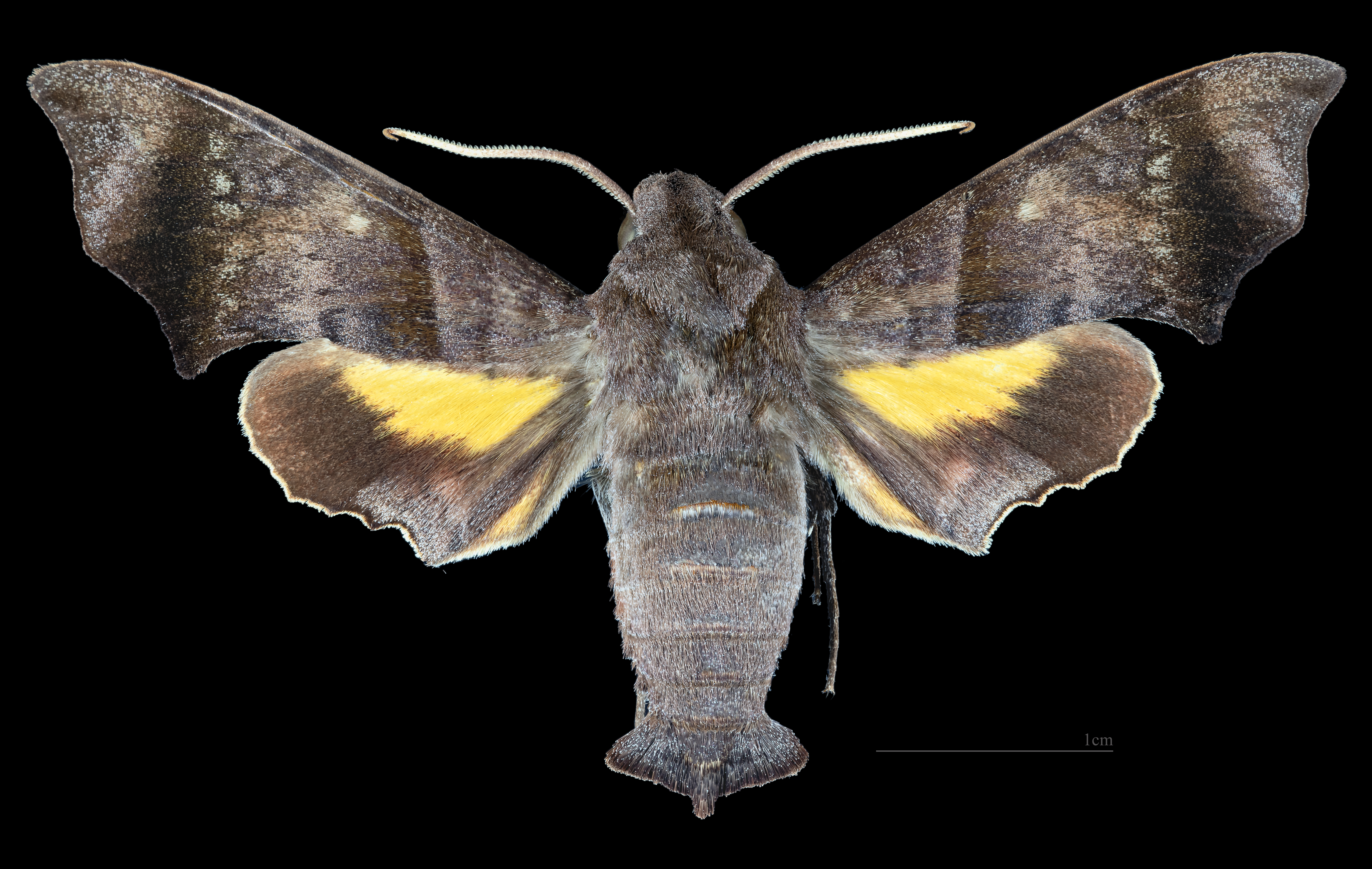 Perigonia stulta - Dorsal side Collection of the Mathematician Laurent Schwartz